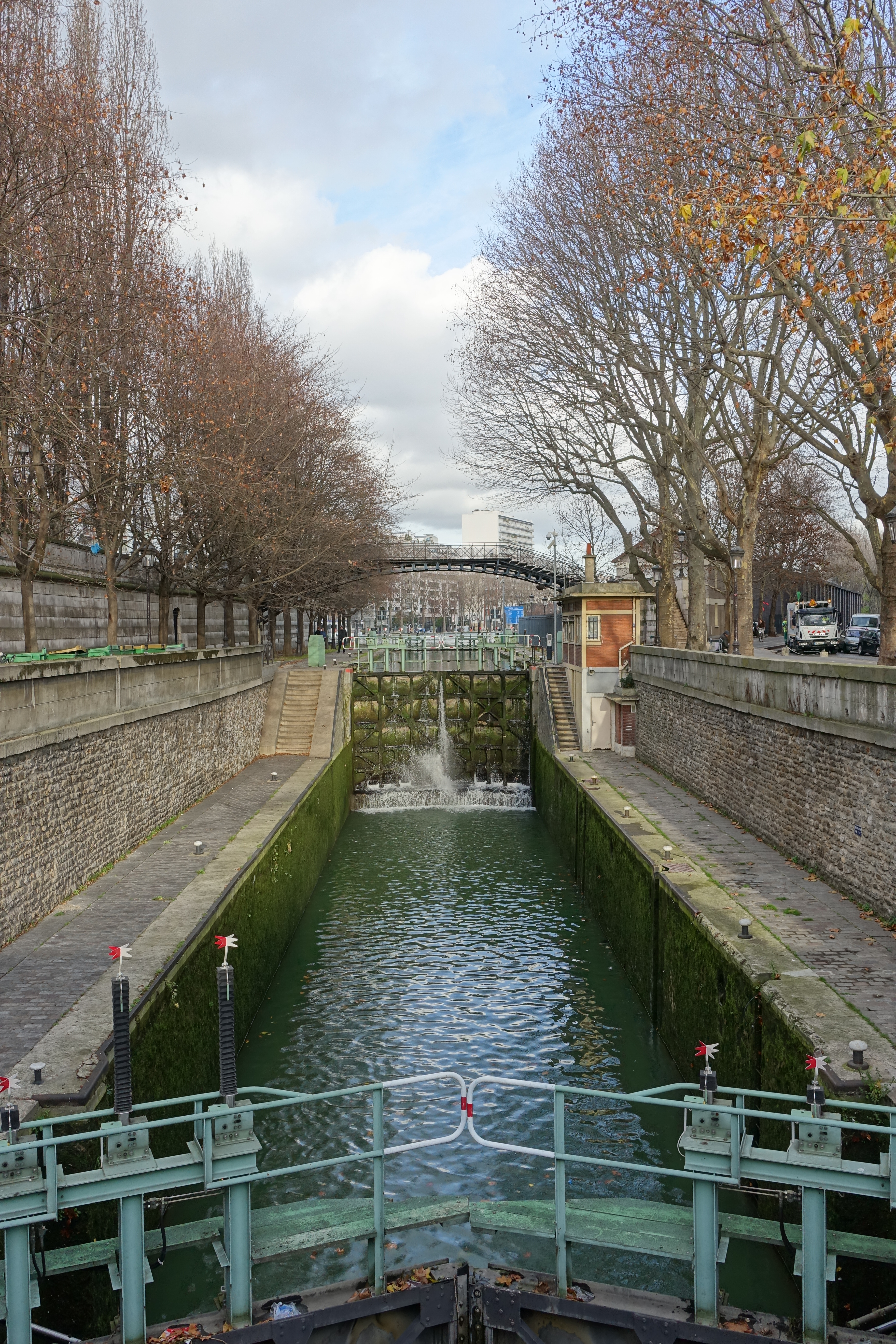 Canal Saint-Martin near the station Stalingrad